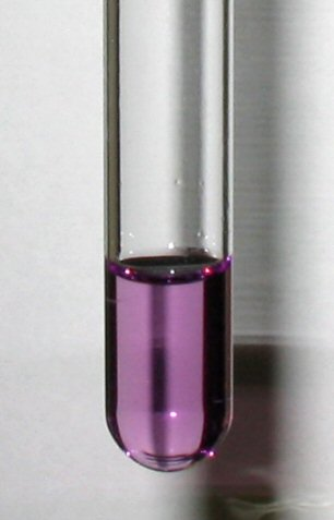 A characteristic purple color of biuret test, produced by adding a drop or 2 of copper sulfate solution to biuret in caustic soda solution. Biuret is formed when urea is gently heated where ammonia is also evolved. This color test confirms the presence of a peptide link, -CO-NH-.